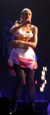 Gwen Stefani performing "4 in the Morning" at the Verizon Wireless Amphitheatre in Charlotte, North Carolina, United StatesIMG_5365